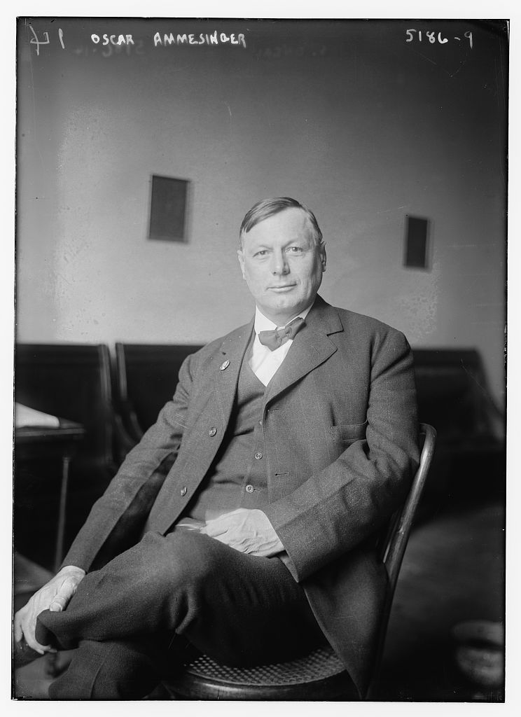 Photograph shows Oscar Ameringer (1870-1943) who was a delegate from Wisconsin to the 1920 convention of the Socialist Party of America, held in New York City May 8-14, 1920. Library of Congress Prints and Photographs Division